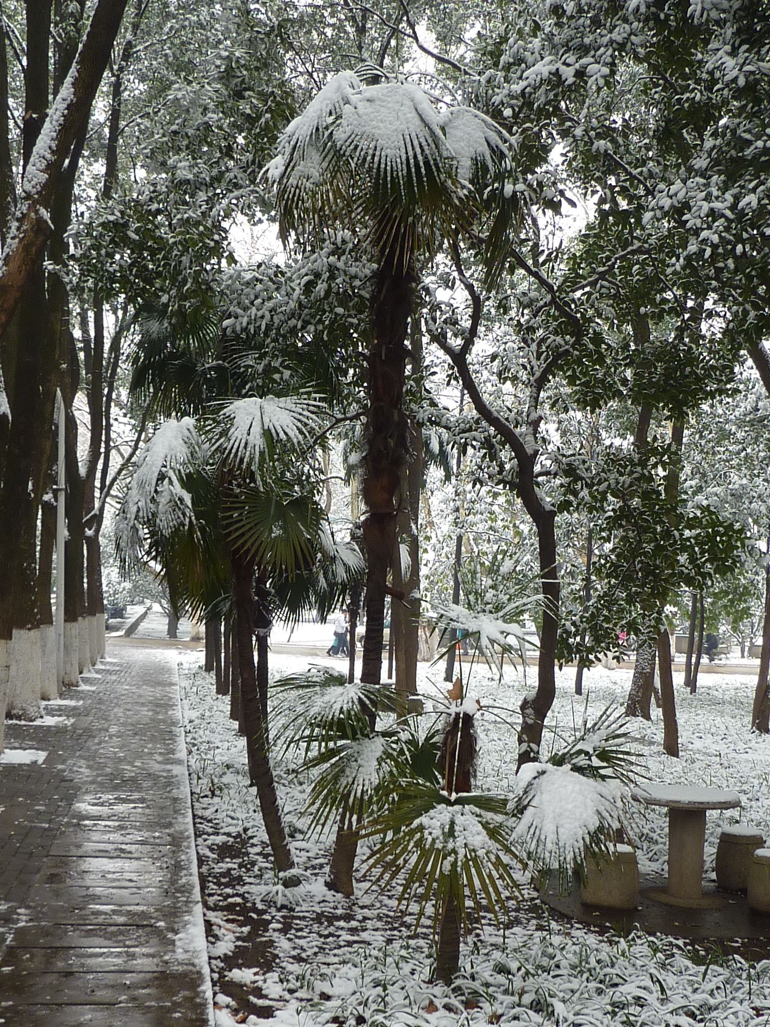 A road on the campus of the Huazhong University of Science and Technology in Wuhan, on a snow day.